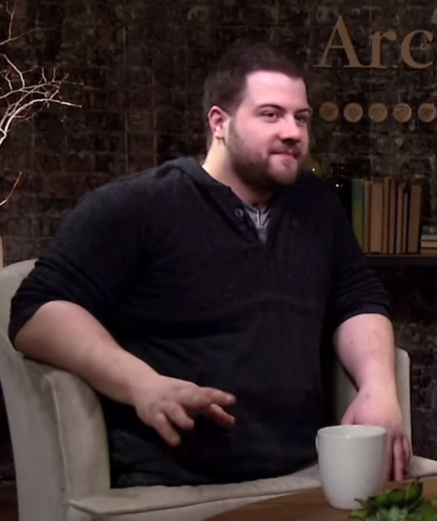 Archetypes show: Host Lee Woodruff interviews Kevin Michael Connolly - author, photographer, and host of "Armed and Ready" currently airing on the Travel Channel.